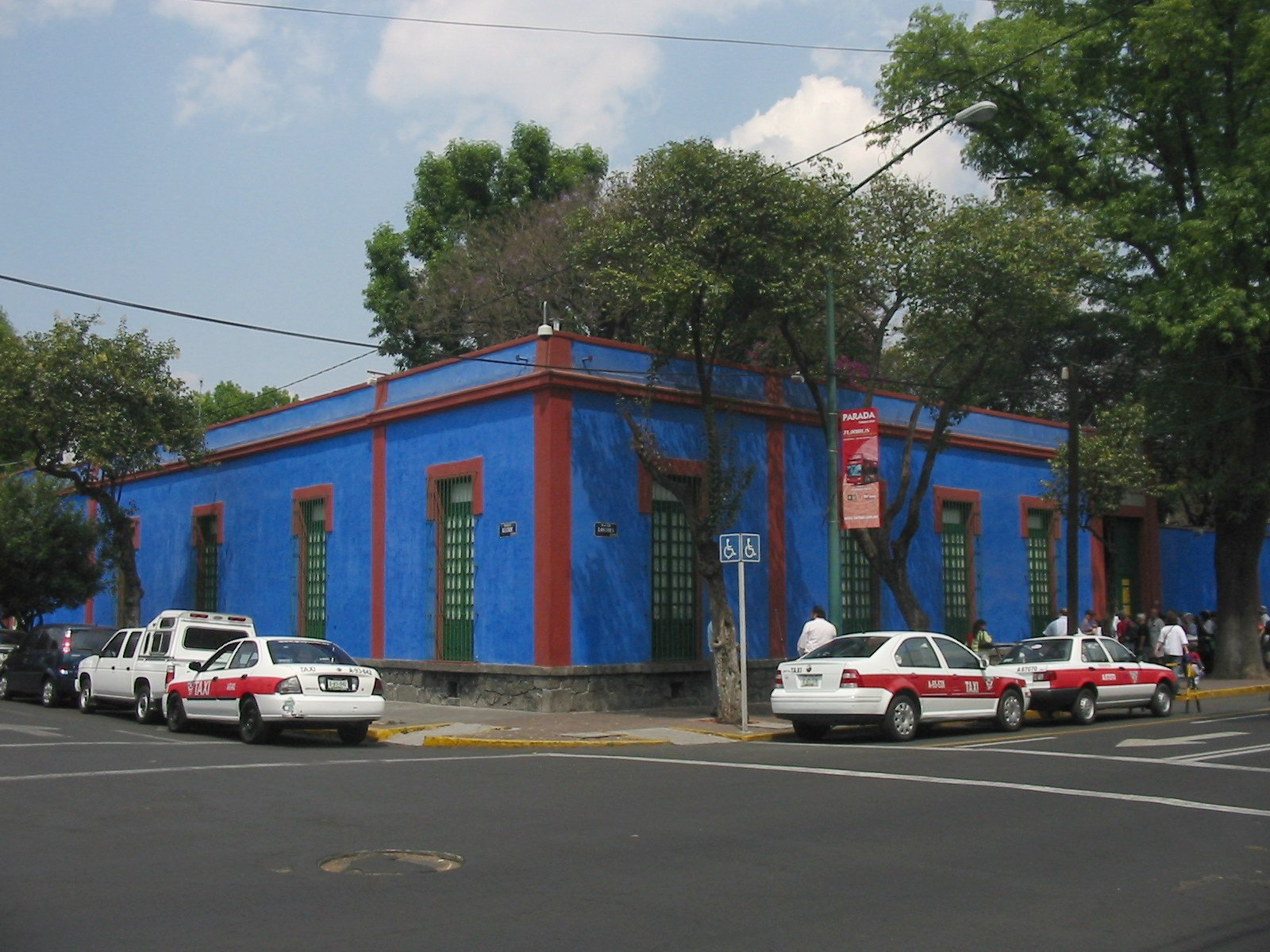 street view of Frida Kahlo's Casa Azul